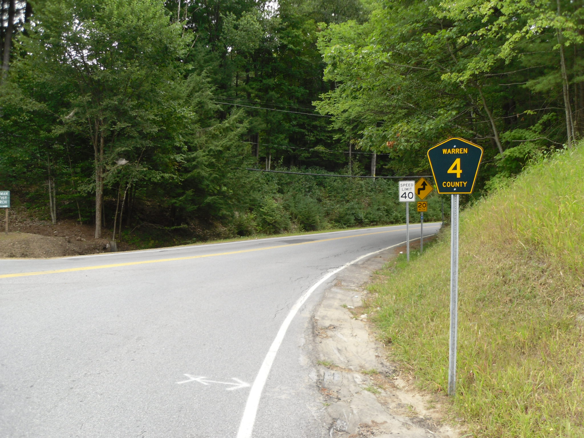 Warren County Route 4 in Warrensburg, New York. The new county route shields used by Warren County is visible on the side and the former signage, a tab, is attached to the SPEED LIMIT 40 post.